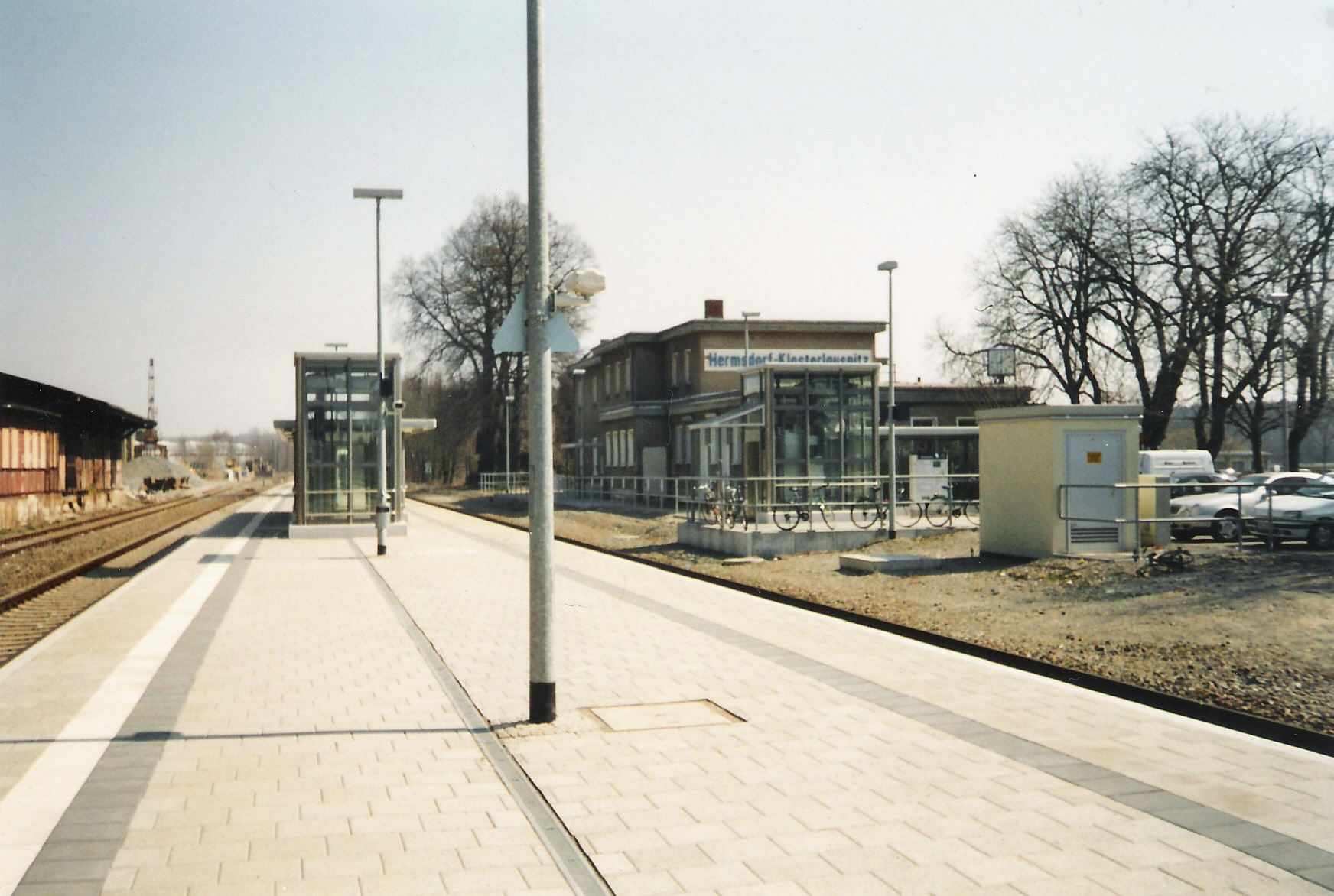 Train station "Hermsdorf-Klosterlausnitz" in Hermsdorf (Thuringia).